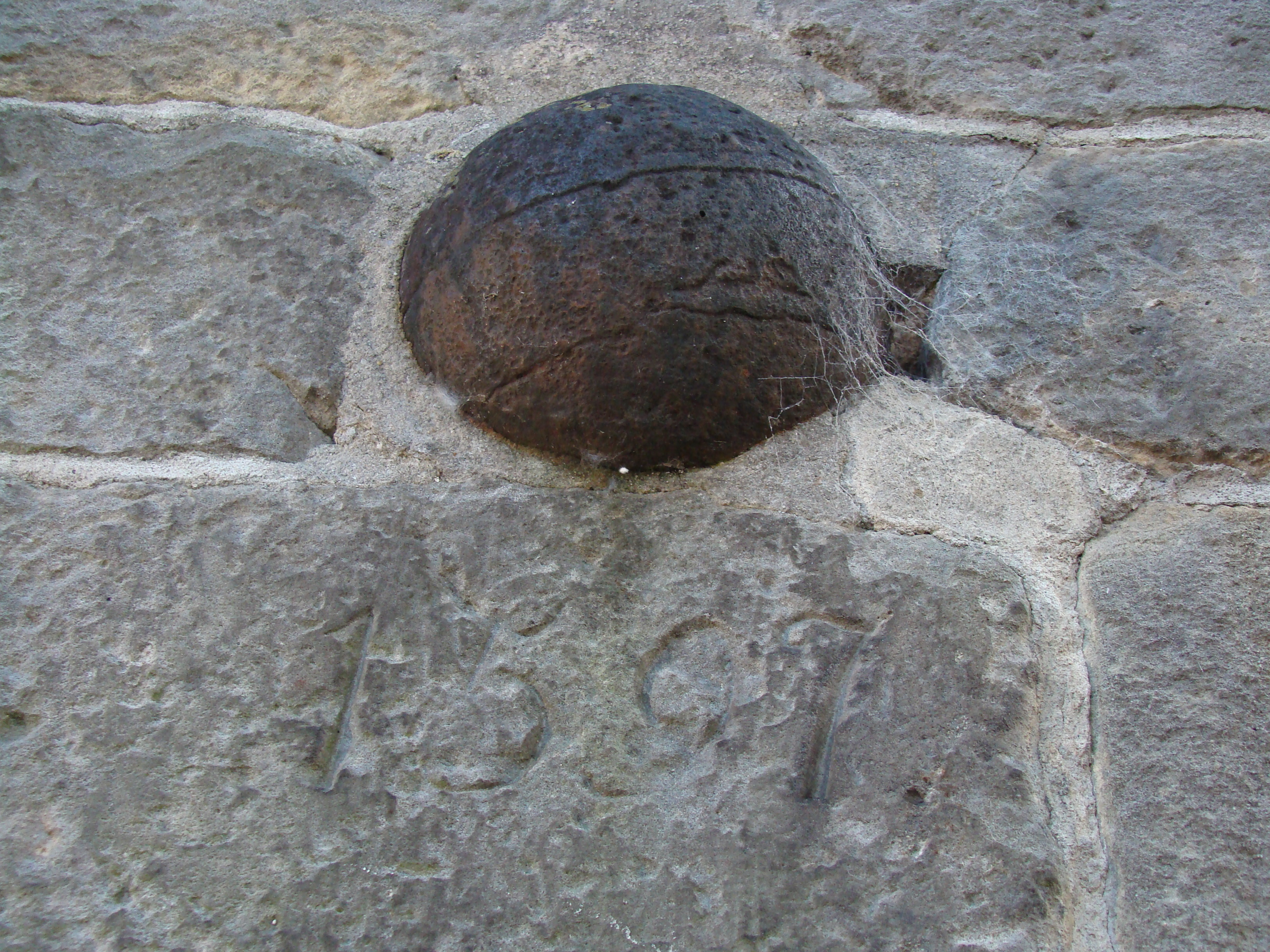 1597 Canonball in the churchwal at Ootmarsum (Netherlands)